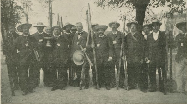 The Ligue picarde team of anglers for the Paris 1900 Olympic Games